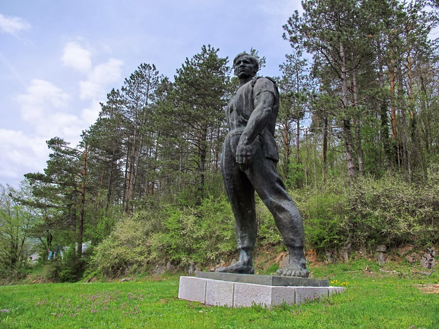 Monument to the fallen Yugoslav partisans' fighters in Drežnica. Author Kosta Angeli Radovani.